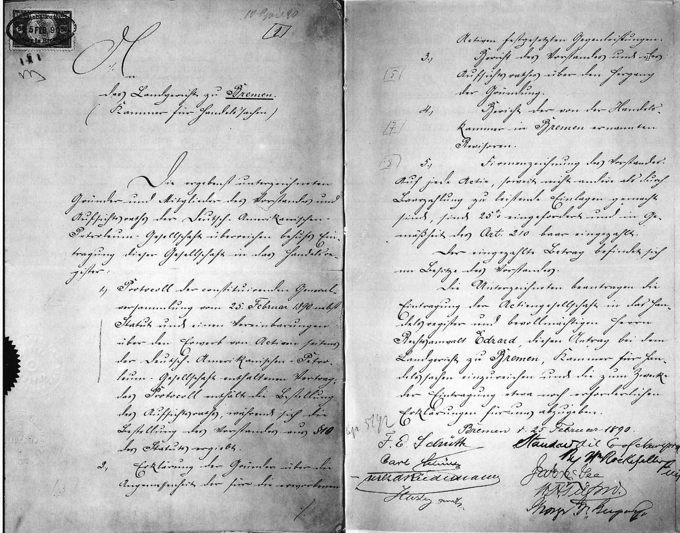 Gründungsurkunde der Deutsch-Amerikanischen Petroleum Gesellschaft